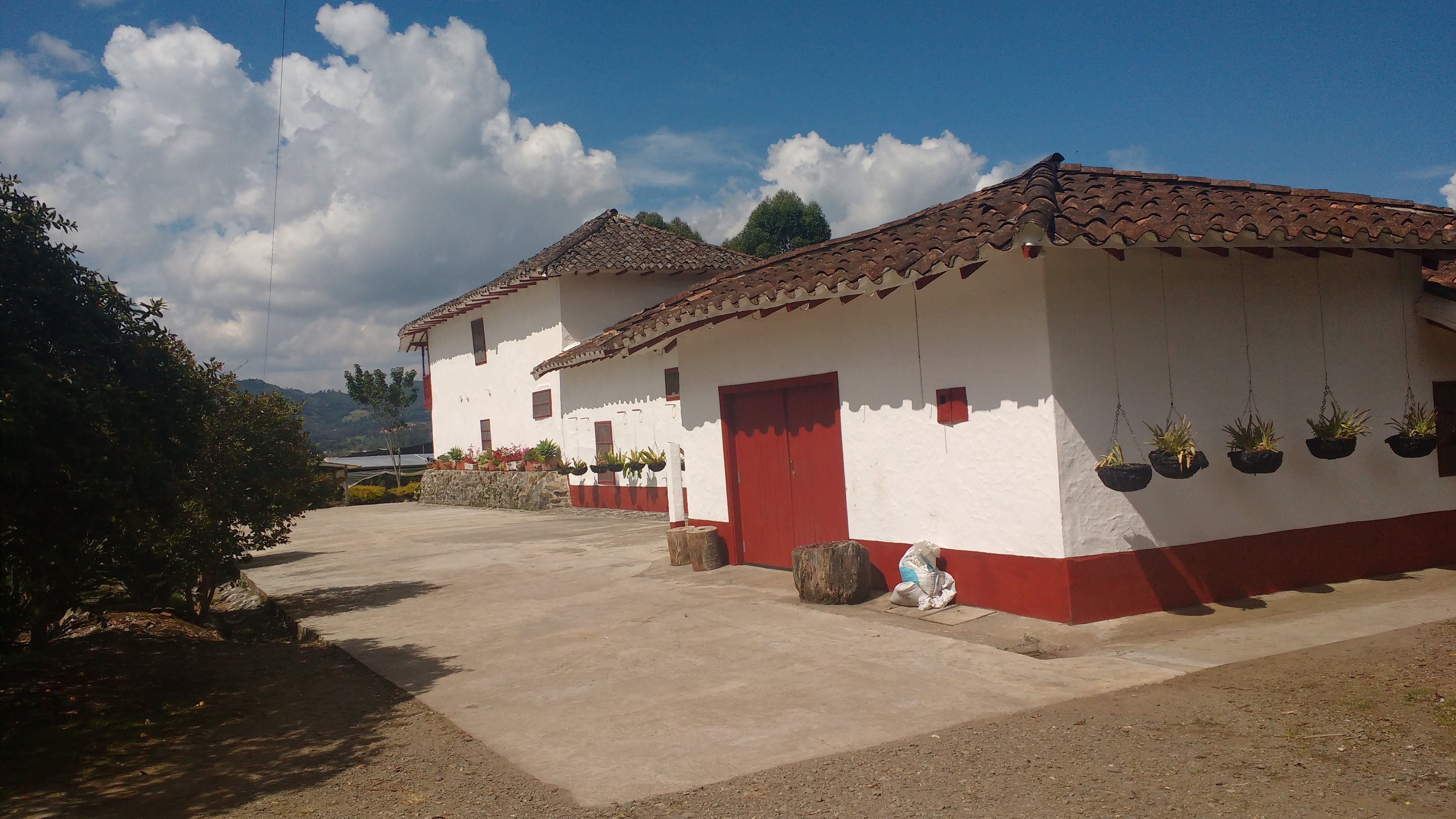 Residence of Colombian poet Gregorio Gutiérrez González. Looking north to the town of La Ceja which is about a kilometer away and the 2nd story has a good view of the town. The surrounding farmland is an active flower cultivation but the house is a museum and if I may say so, in a uniquely paisa manner.